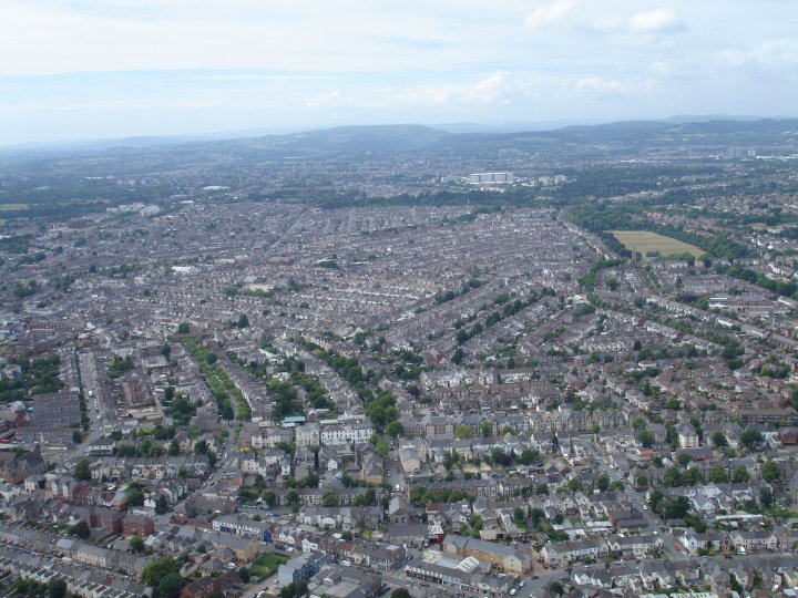 Residential areas of Roath and Cathays, South Cardiff